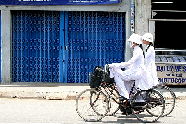 Two highschool girls in áo dài in HCMC (cropped from original)IMG_6391